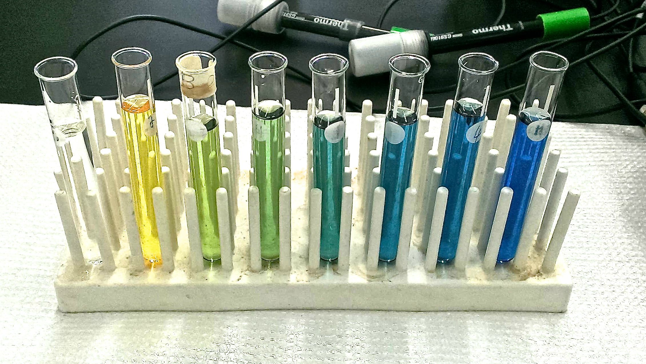 The different colors of bromothymol blue. From left to right: Blank, pH 4, pH 6.2, pH 6.6, pH 7.2, pH 7.5, pH 8, pH 12.